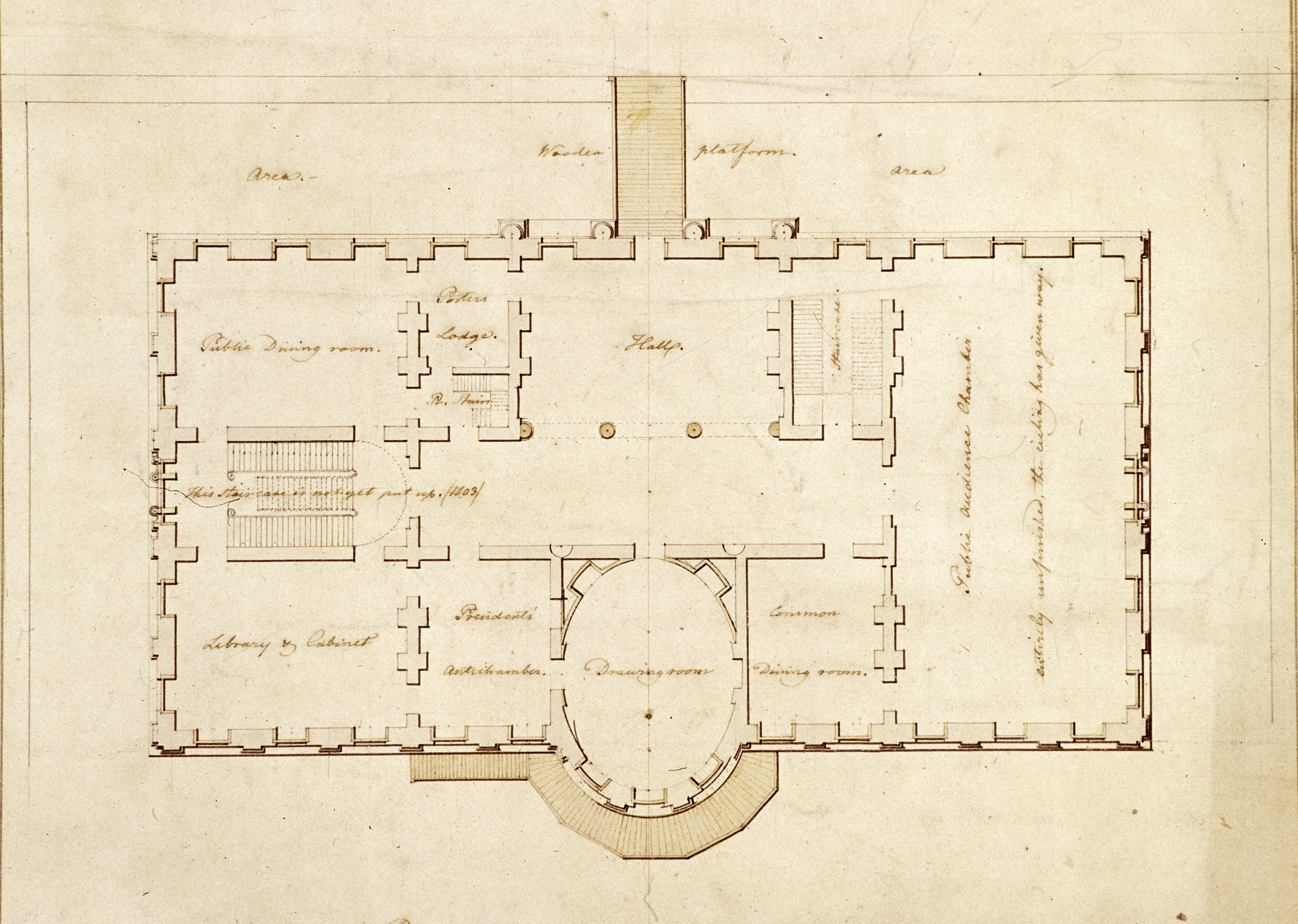 Floor plan of the "First Principal Floor" (now the State Floor) of the White House in Washington, D.C., in 1803. The drawing was made by architect Benjamin Henry Latrobe in 1807.